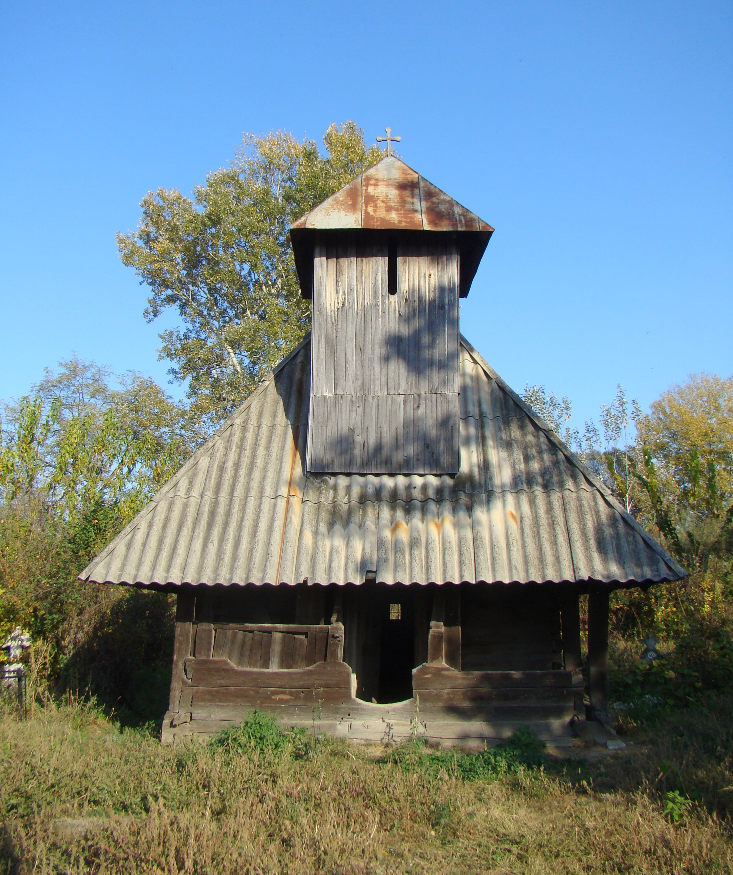 Wooden church in Căpățânești, Mehedinți county, Romania